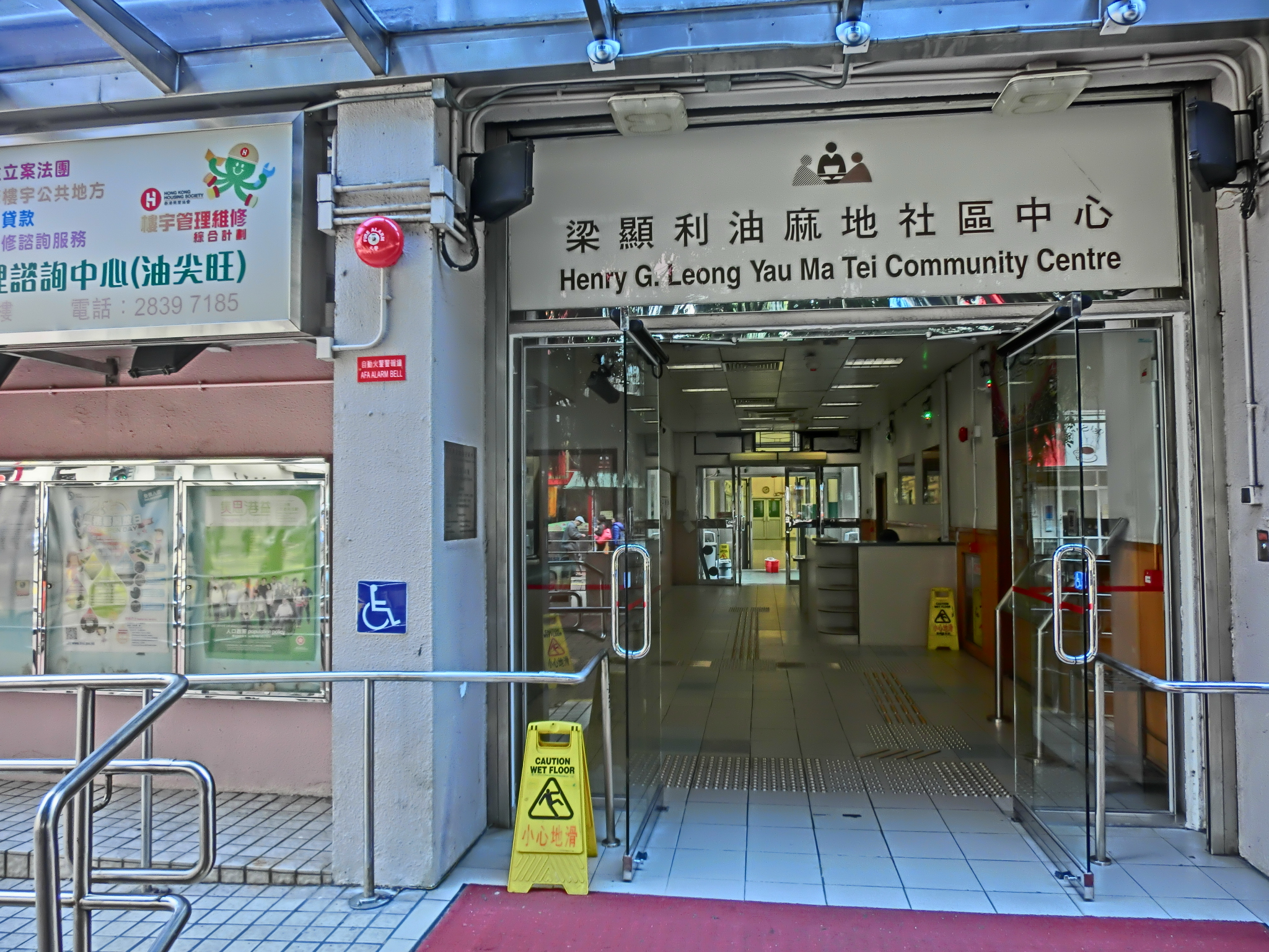 Public Square Street, Yau Ma Tei, Hong Kong